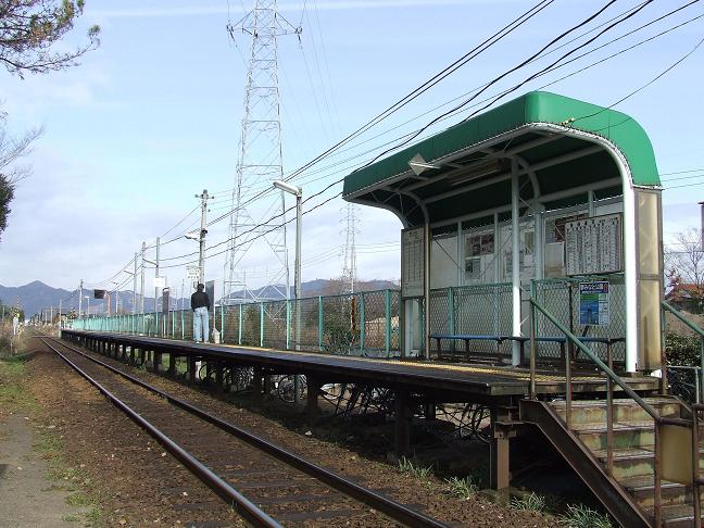 Takamatsucho Station on Sakai Line